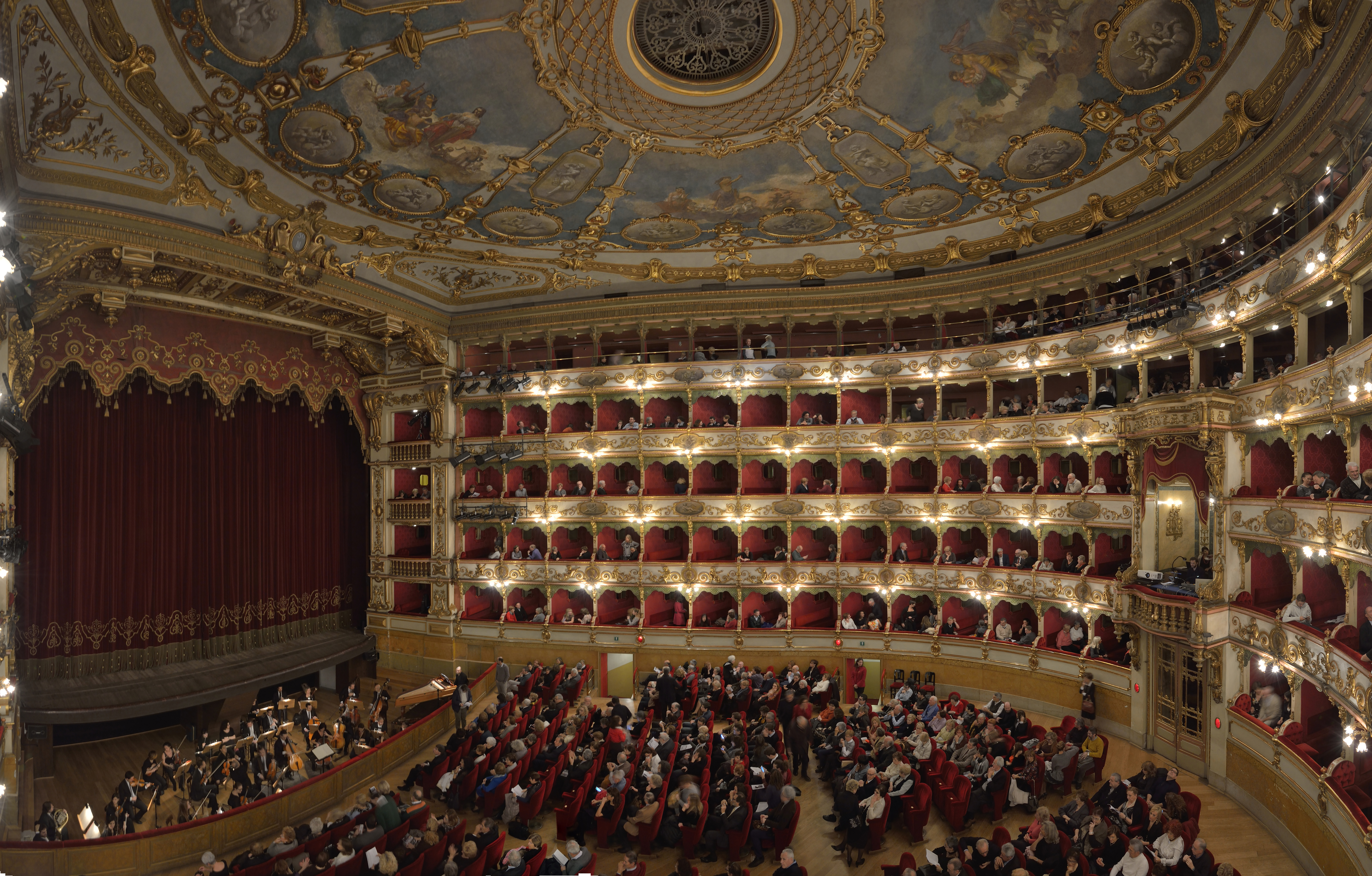 Internal view of the Teatro Grande in Brescia